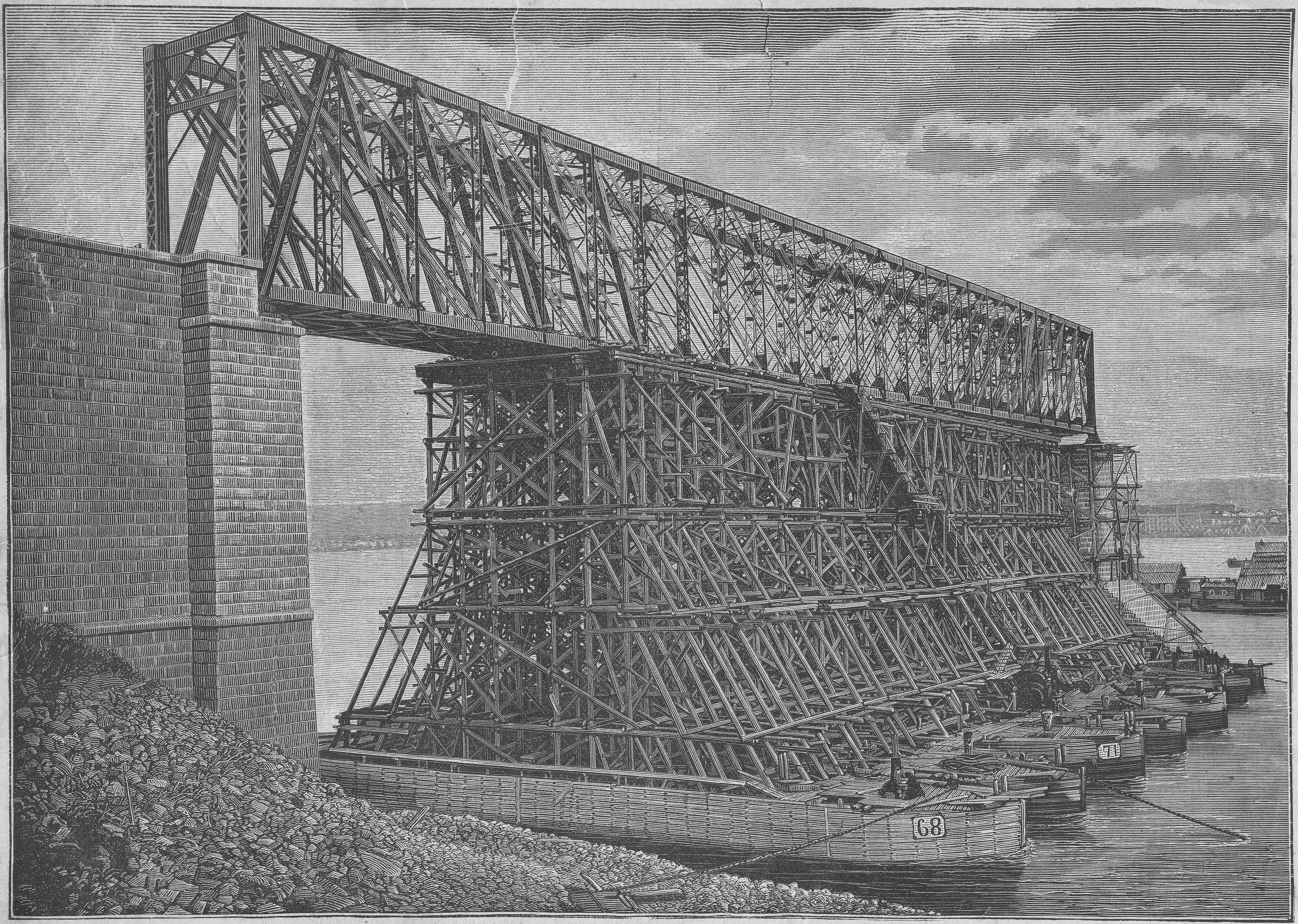 Starting of construction of Syzranskiy railway bridge in 1878